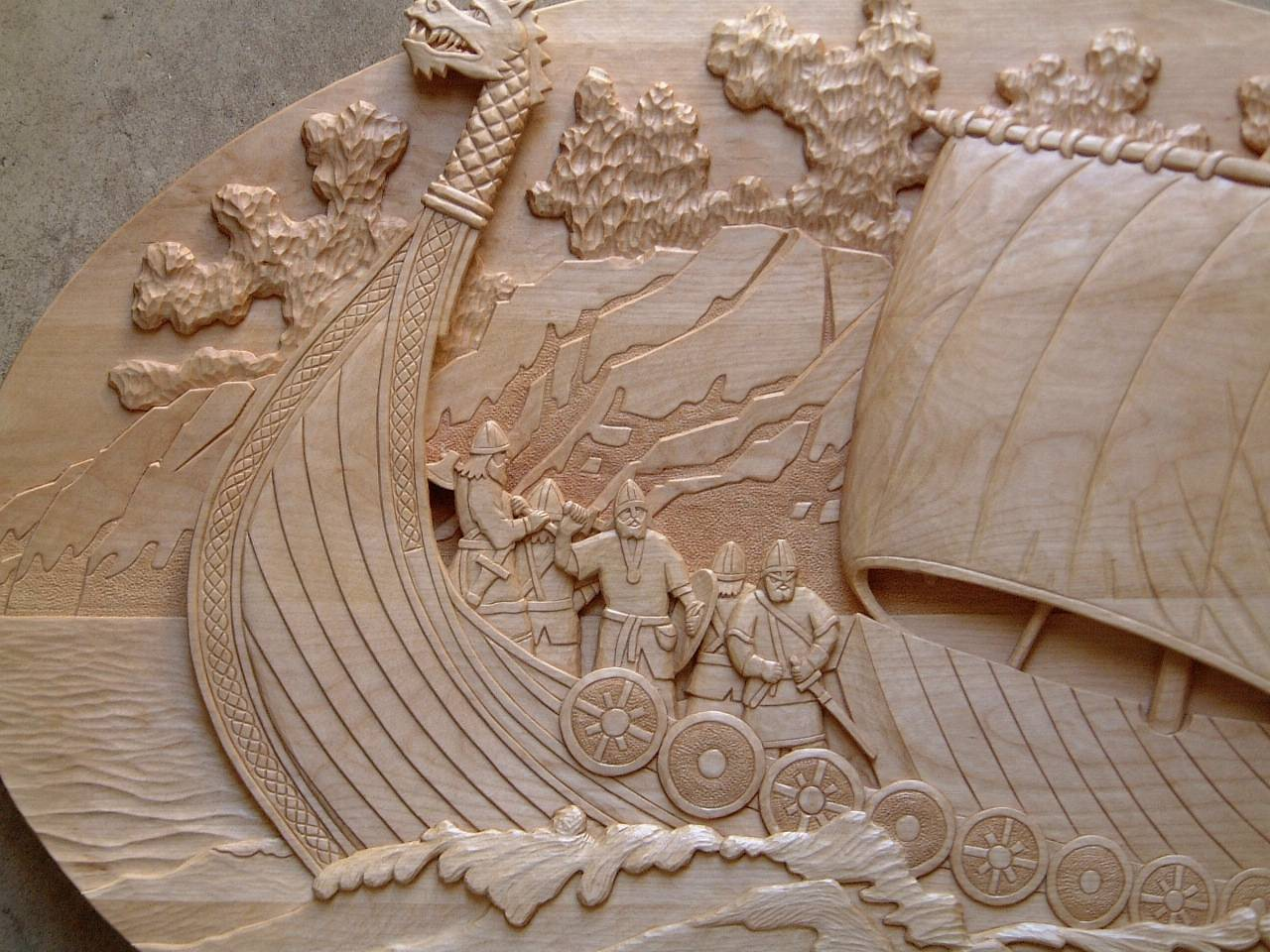 Relief Carving of Viking Ship - 2003 Hard Maple, 32" wide x 24" tall © Woodcarvings by W.F. Judt